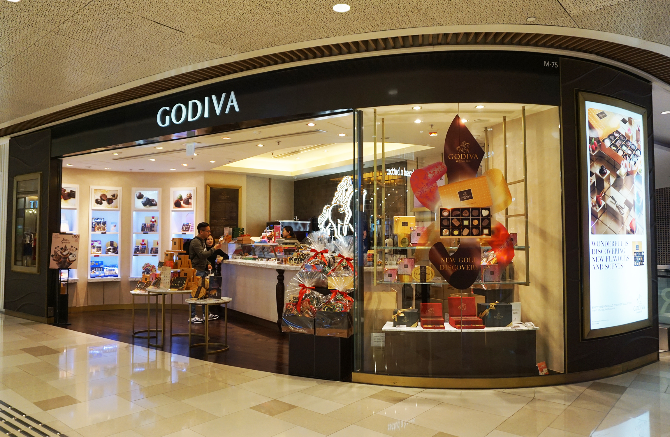 GODIVA, Hong Kong.